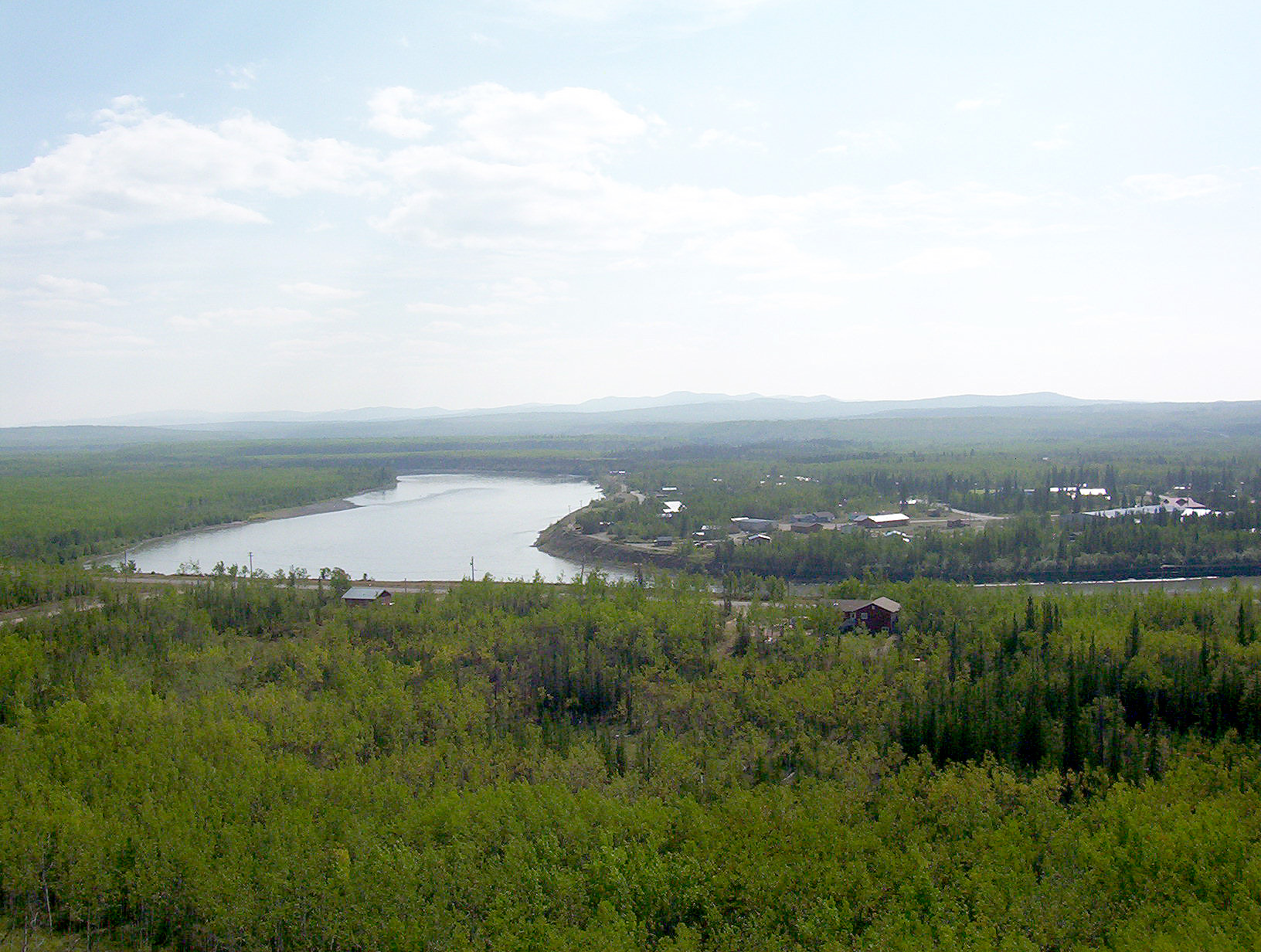 Pelly River at Pelly Crosing, Yukon, Canada